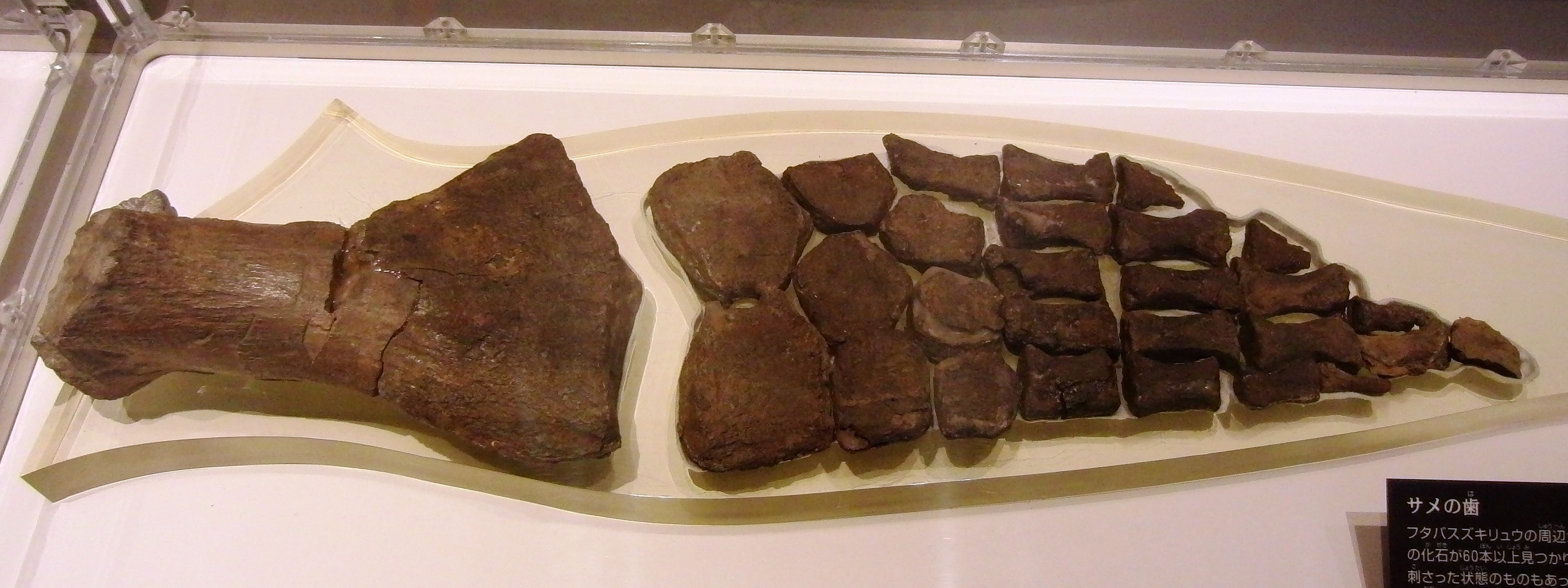 Fossil of left hind limb of Futabasaurus suzukii. Exhibit in the National Museum of Nature and Science, Tokyo, Japan.